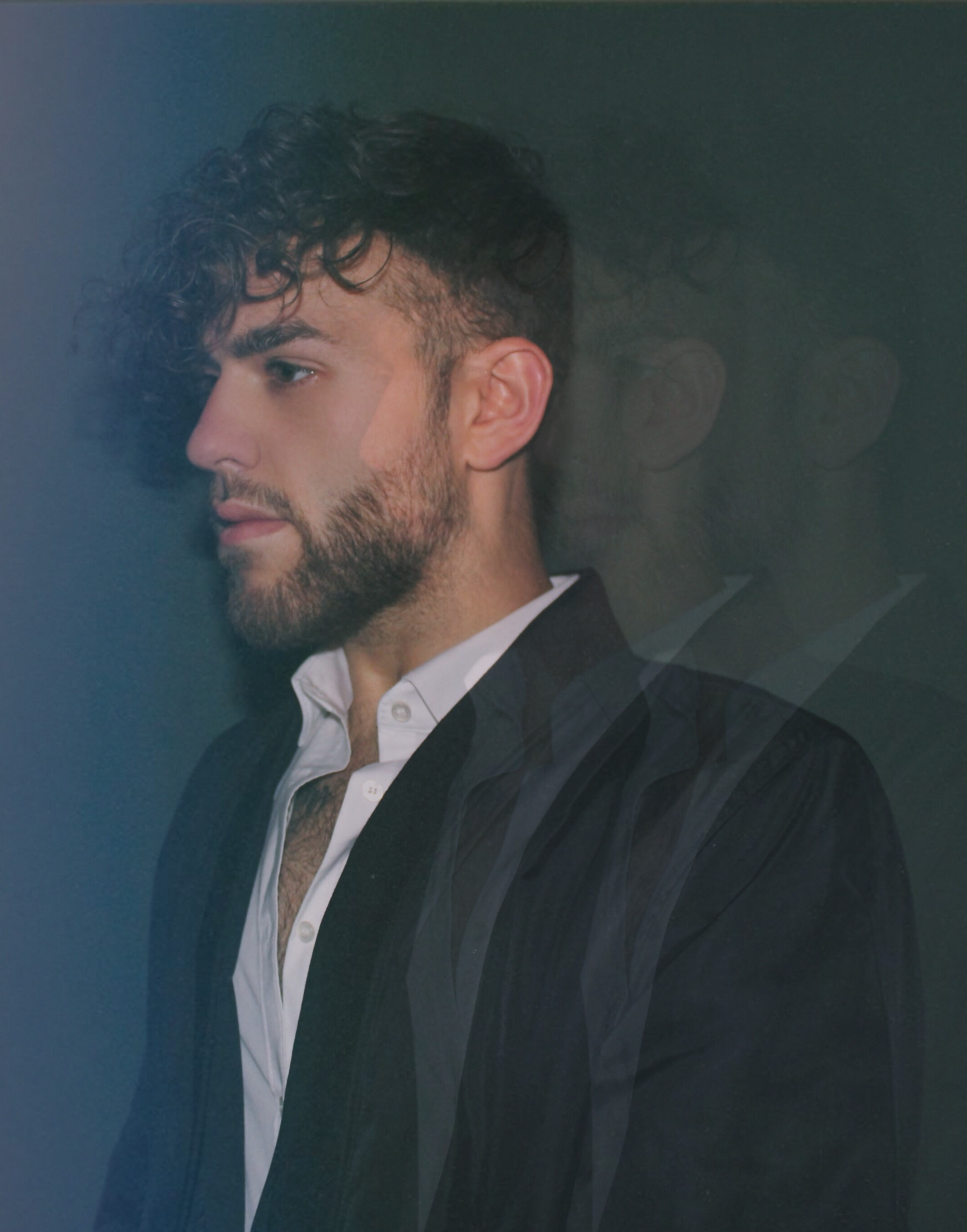 Kenan Williams 2016 in Berlin, Germany